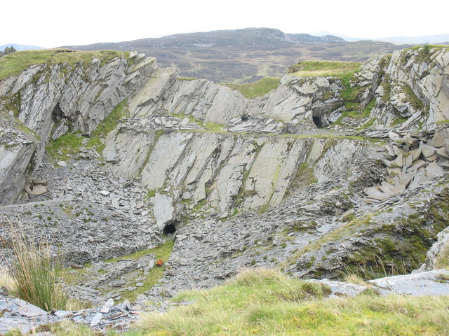 Cwt y Bugail Quarry Cwt y Bugail was partly an open quarry with two pits, north and south, and partly a slate mine with a number of adits leading to underground chambers. Quarrying began on this remote site in the 1820s, but the quarry only flourished after 1863 with the building of the Rhiwbach Tramroad which passed near to Cwt y Bugail. The proprietors paid for the right to transport finished slate from the quarry along this tramway. In the late 19th century this amounted to some 3,000 tons p.a. Cwt y Bugail ceased operating in the 1960s.